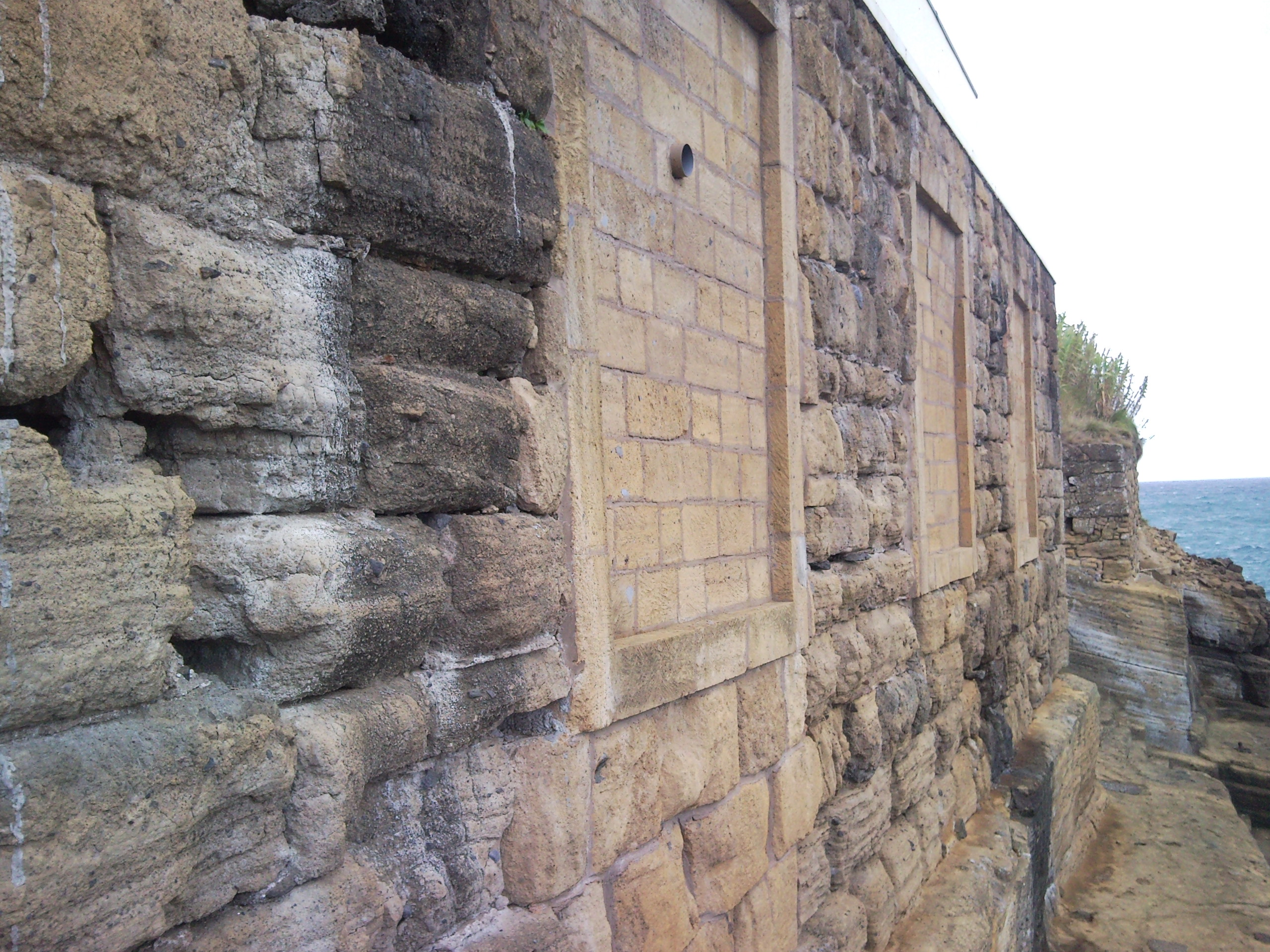 Fábrica antiga da Caça à Baleia, Monte da Guia, concelho da Horta, ilha do Faial, Açores, Portugal